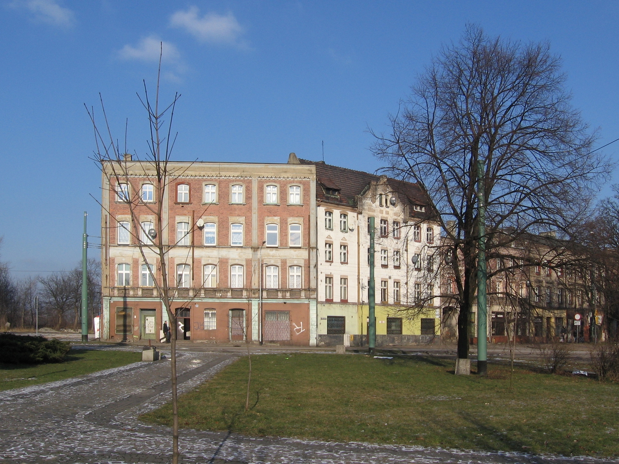 Słowiański square in Świętochłowice-Lipiny and Norberta Barlickiego Street